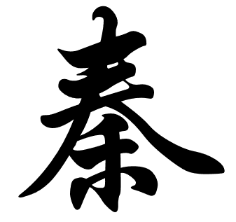 Qin surname/dynasty name in Chinese